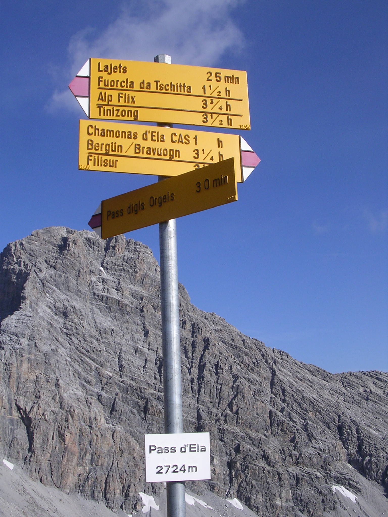 Fingerpost on Pass d’Ela (Surses/Filisur, Grison, Switzerland